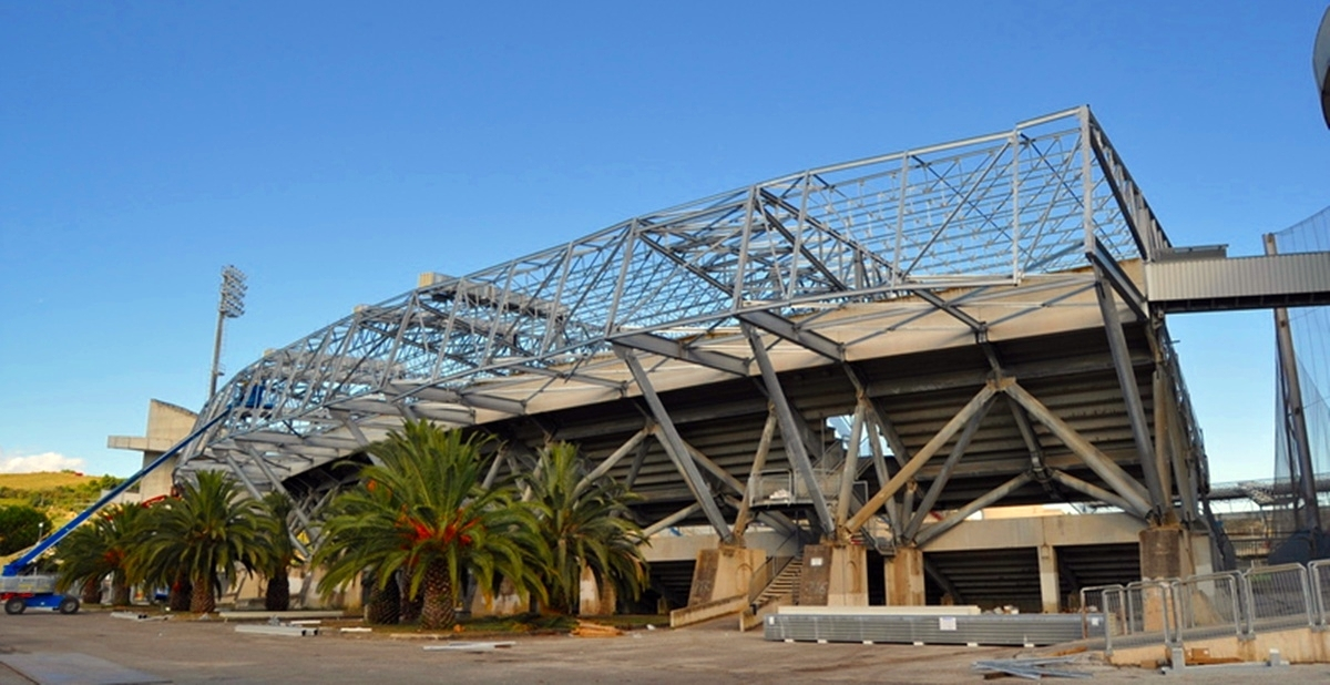 San Benedetto del Tronto, renovation of the Riviera delle Palme stadium. In detail, the construction of the stadium roof structure by GO ENGINEERING S.r.l. engineering design studio.